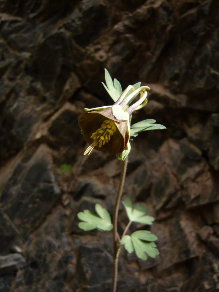 Aquilegia viridiflora from Yolin Am, Mongolia.